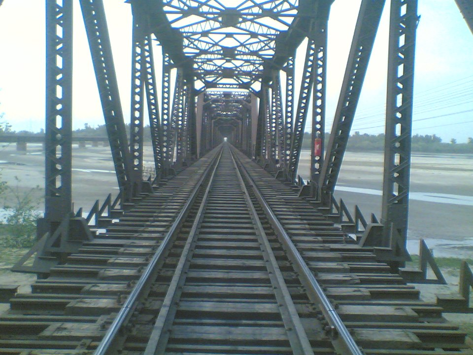 Alexendria bridge in Chenab River Gujrat